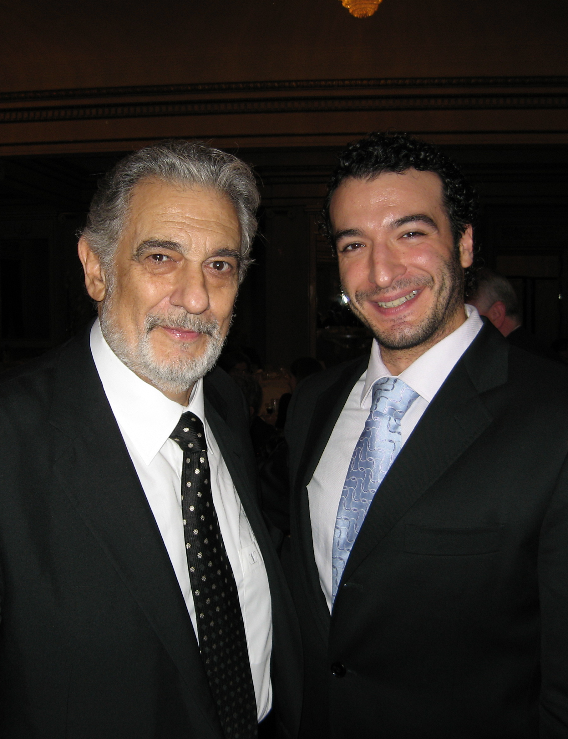 Simone Alberghini with Placido Domingo after a performance of Alfano's Cyrano at Teatro La Scala, Milan, 2008